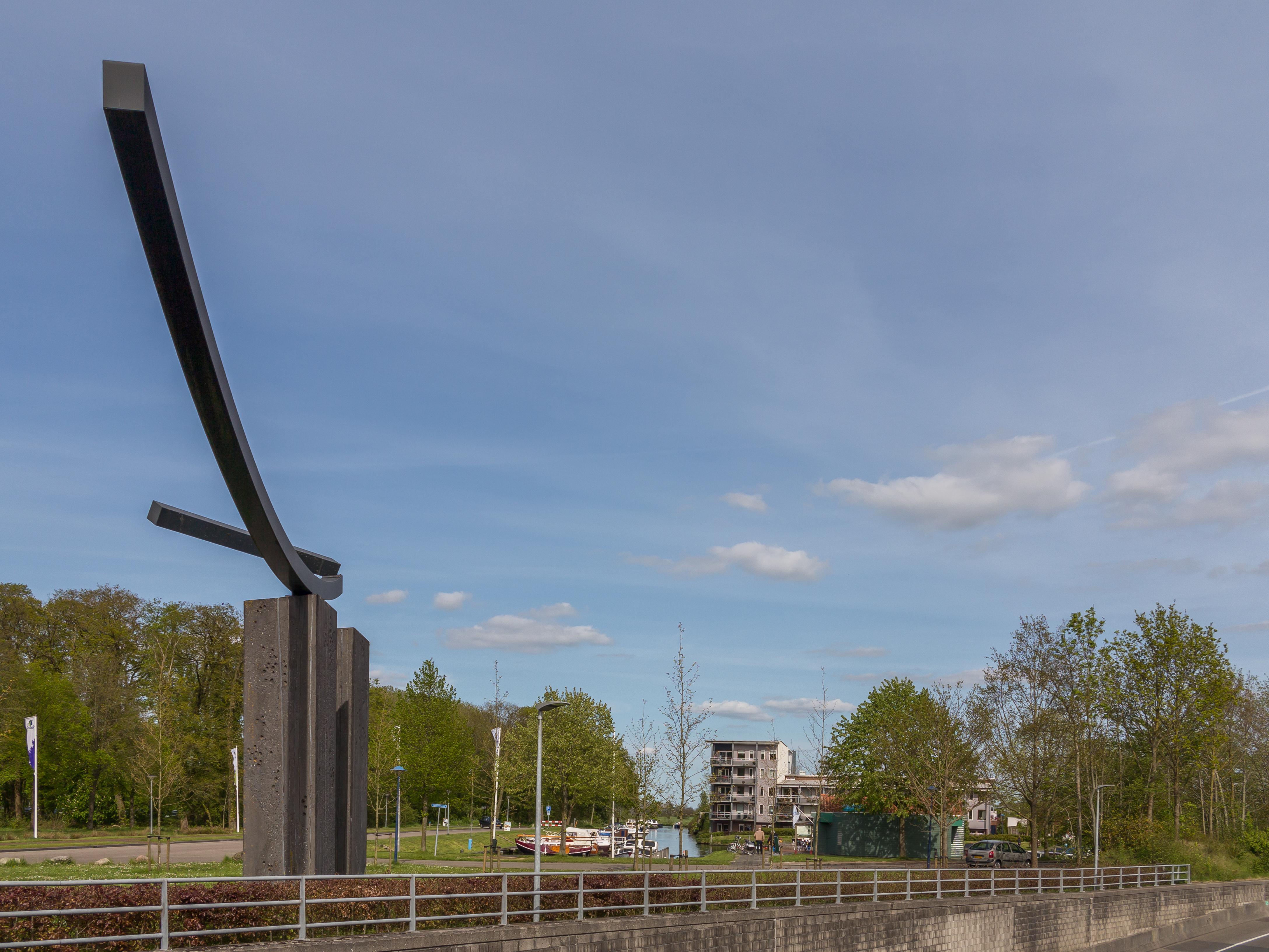 Leek, modern street art